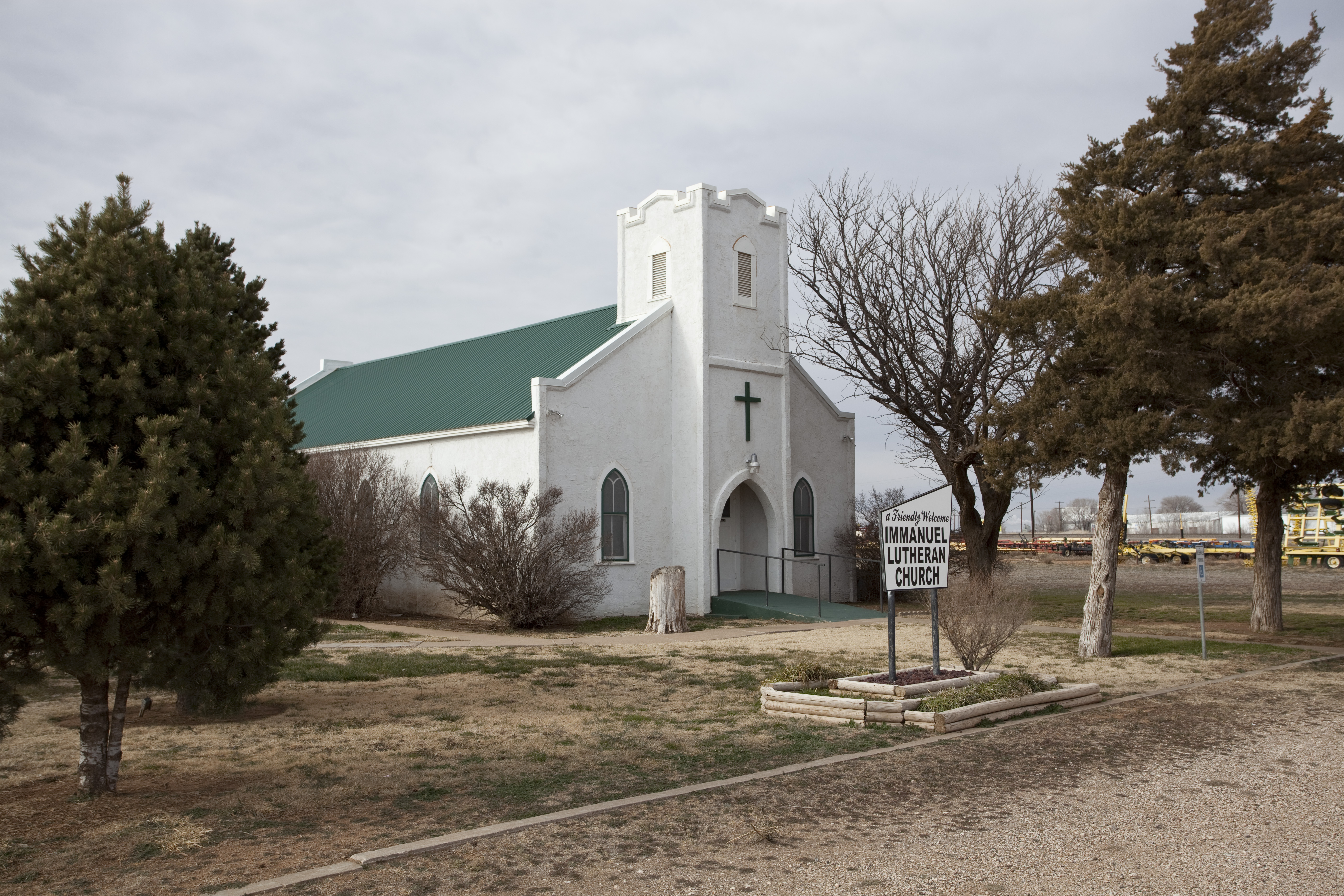 Immanuel Lutheran Church in Posey, Texas of Lubbock County.